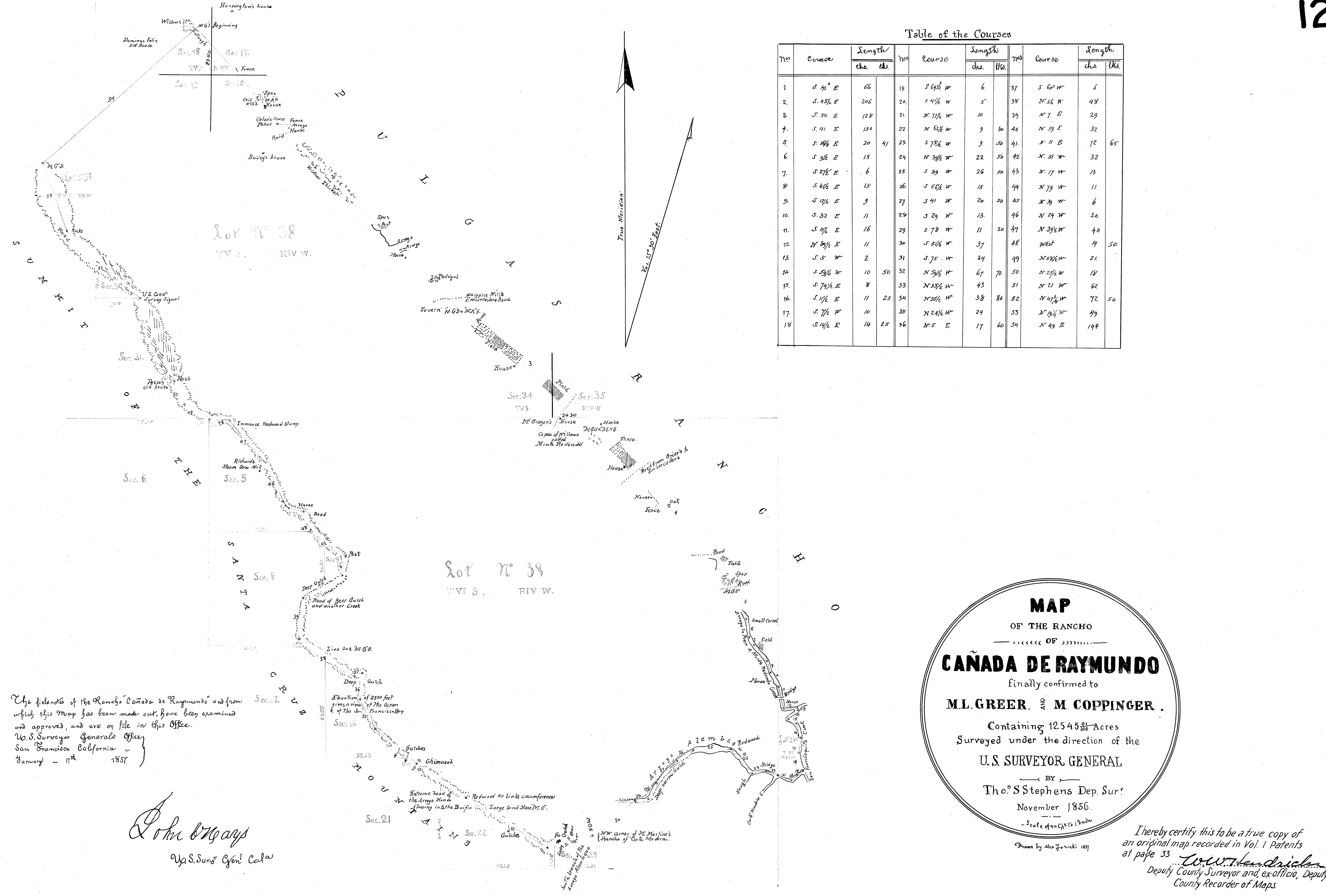 As required by the Land Act of 1851, a claim for Rancho Cañada de Raymundo was filed with the Public Land Commission in 1852, and the grant was patented in 1859 to María Luisa Soto Coppinger Greer and Manuela Coppinger.